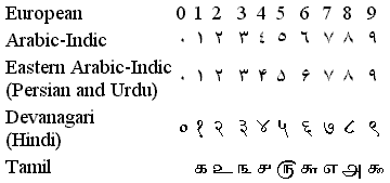 Five varieties of Hindu-Arabic numerals